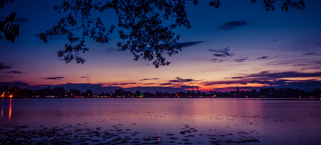 Evening view of Sivasagar Tank (Borpukhuri)